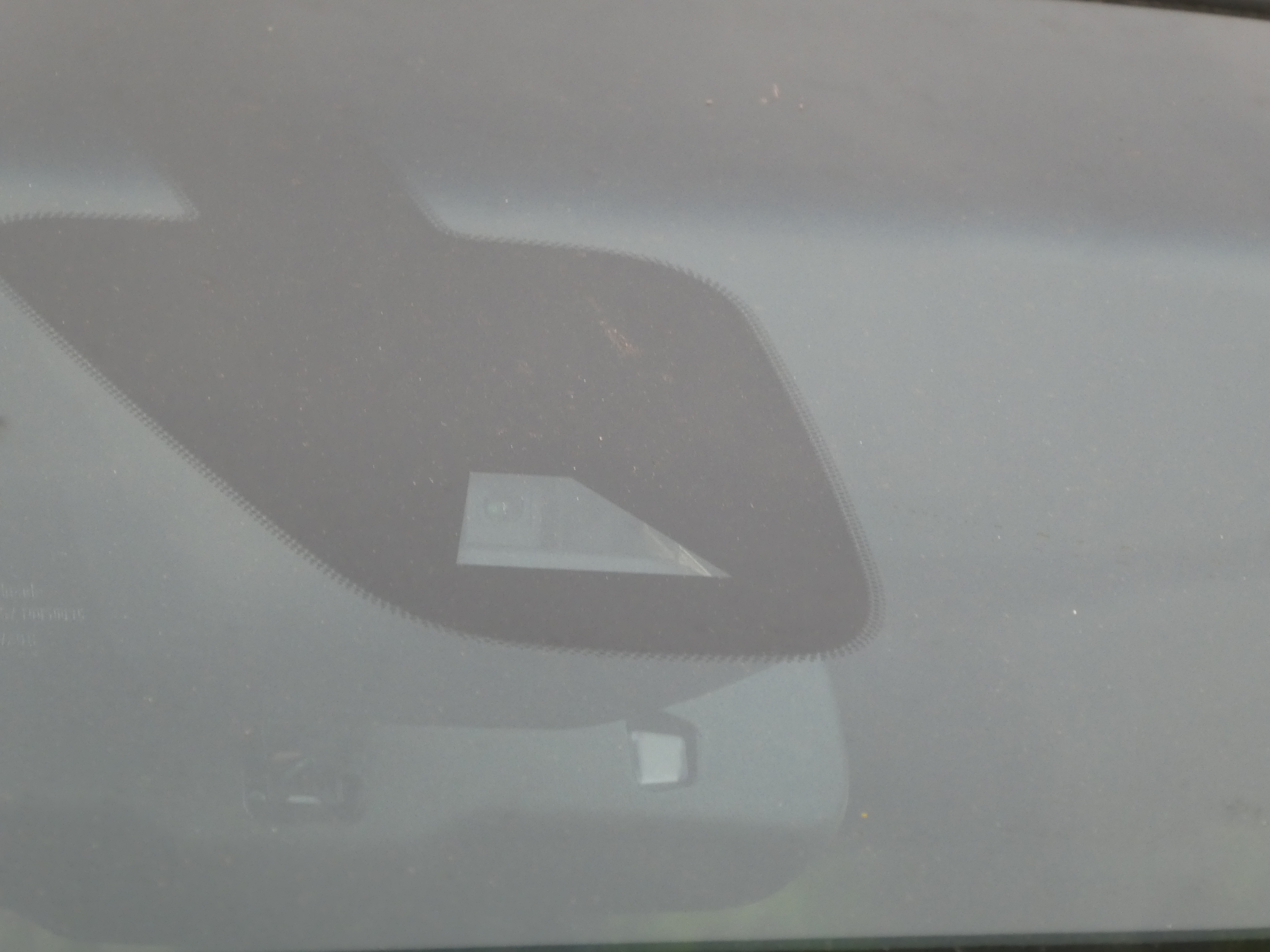 Nissan SERENA emergency brake.In front.